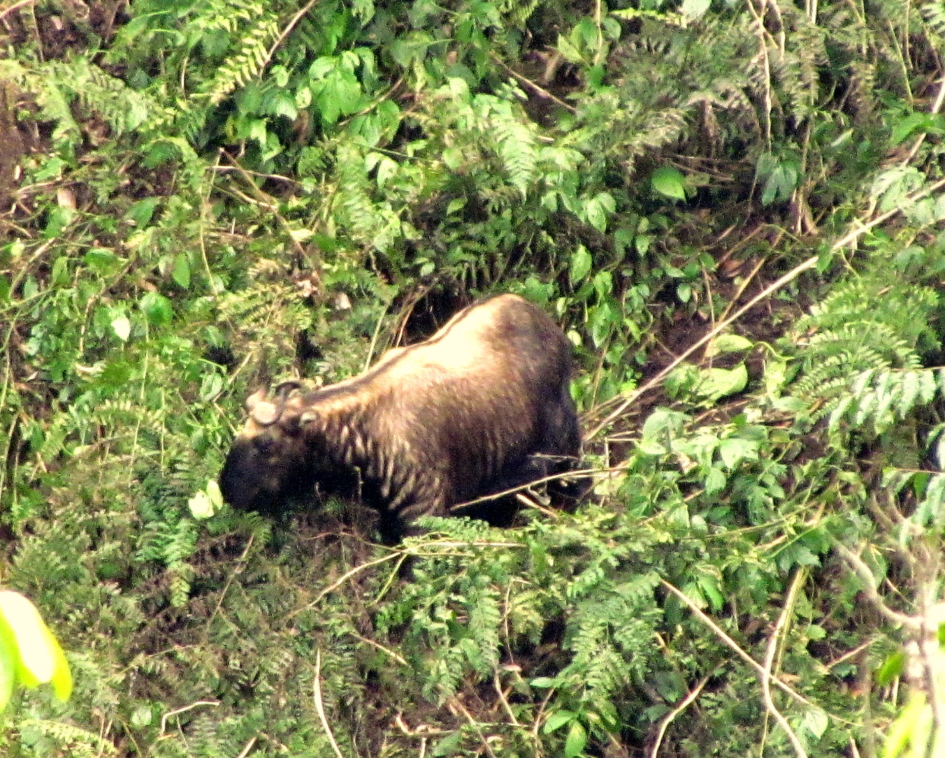 A wintering Bhutan Takin browses on shrubs in warm broadleaf forest in Jigme Dorji National Park, Bhutan